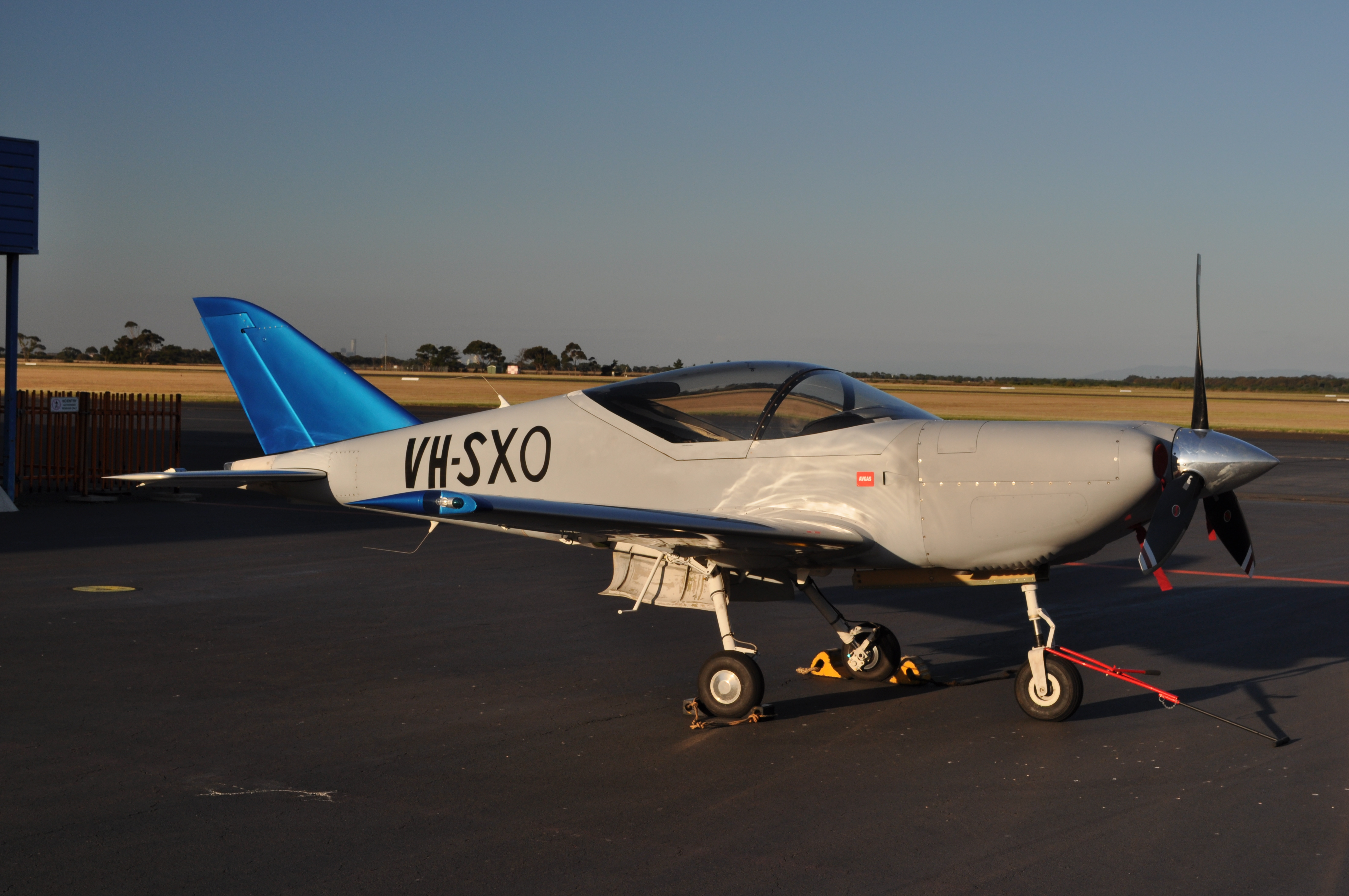 VH-SXO (cn SX-AUS-01), recently completed homebuilt aircraft, the only one of this type in Australia. Based at Goolwa in South Australia.